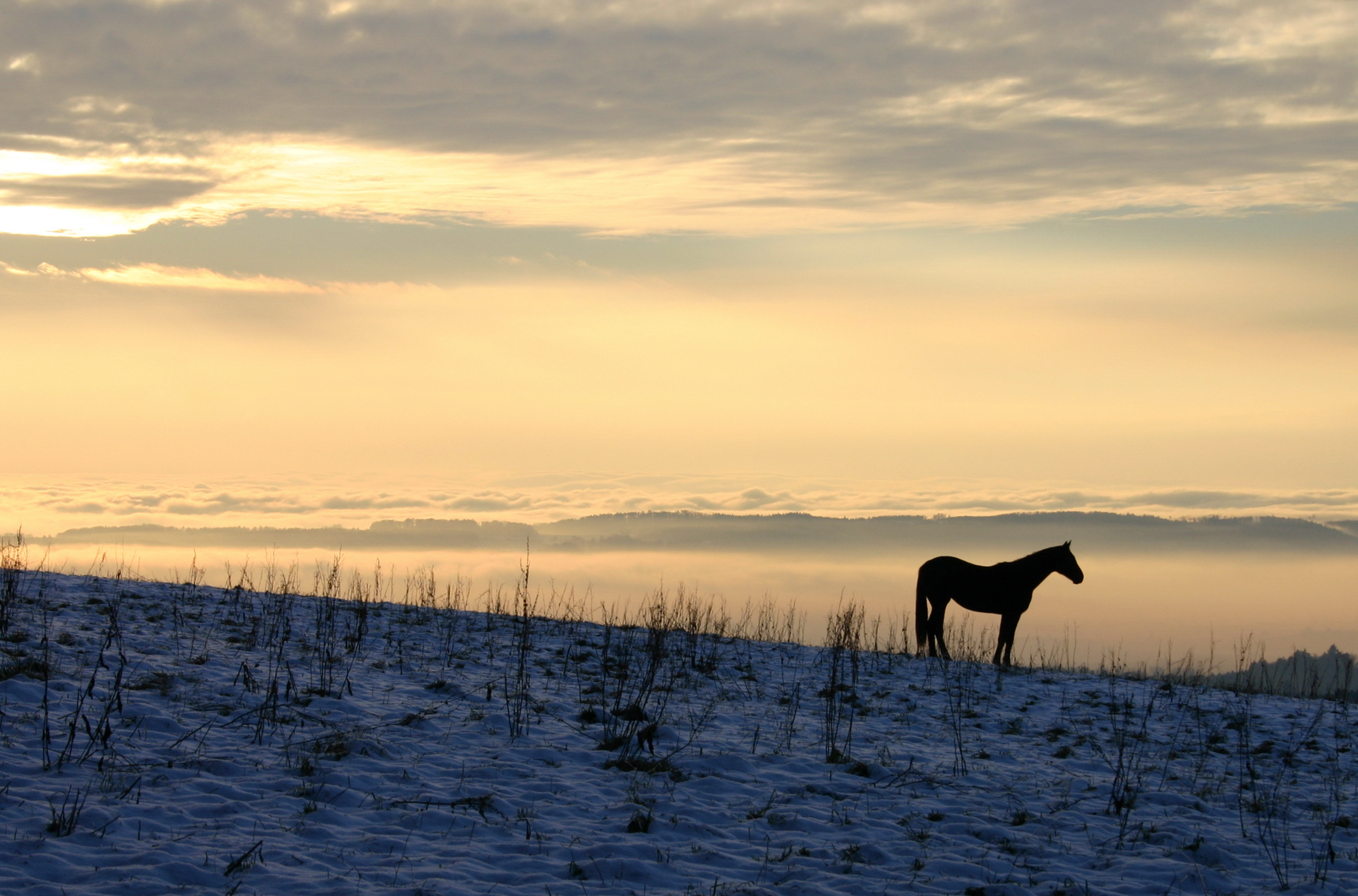 Horse on the Gehrenberg, near Deggenhausertal-Wendlingen, district Bodenseekreis, Baden-Württemberg, Germany.